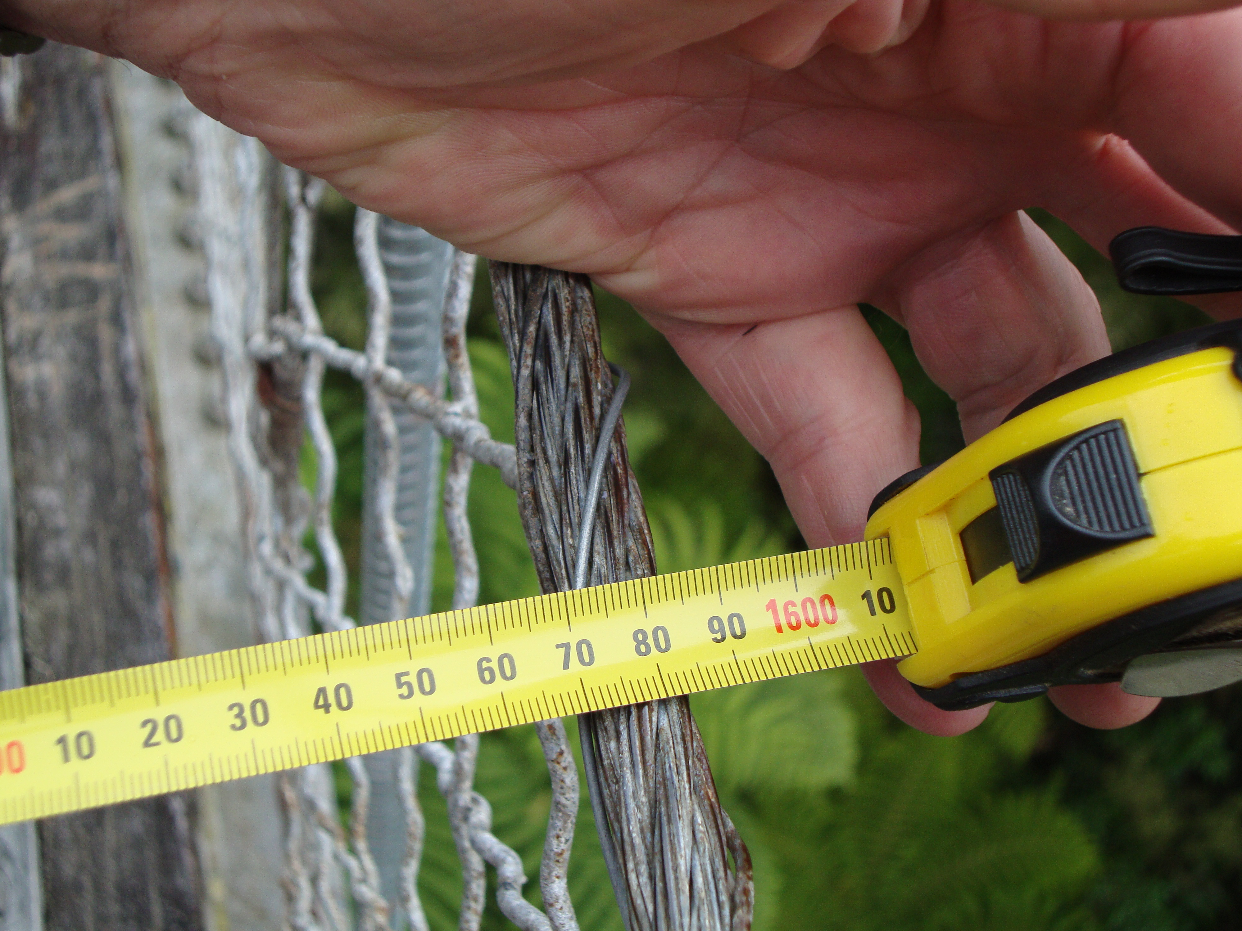 The width of the bridge between handrails as shown.